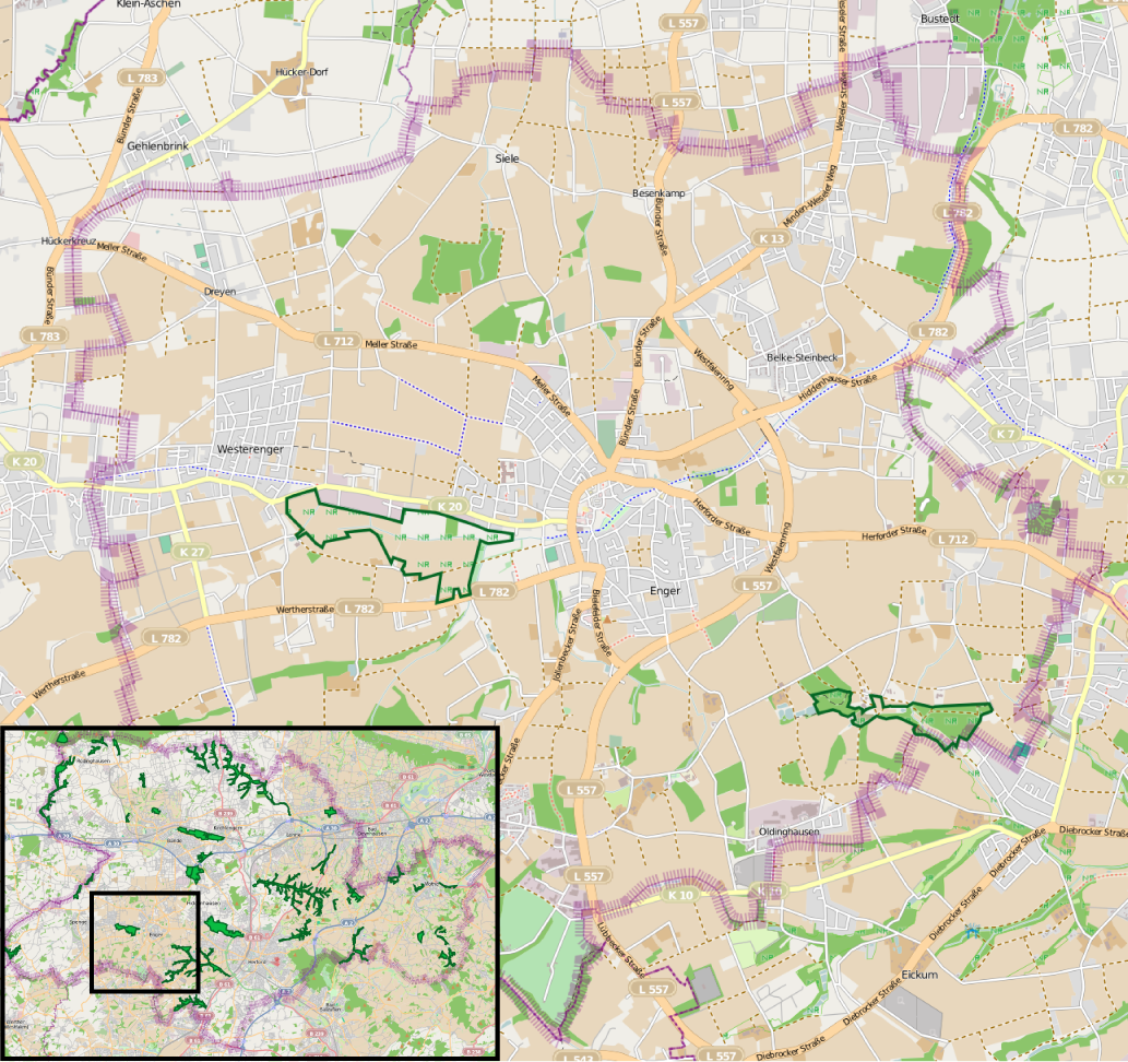 Nature reserves in Enger - overview map Number and borders of nature reserves are subject to frequent change. In order to facilitate reproduction of this map from openstreetmap, the following data is stored here: export boundaries: north: 52.175; west: 8.49; east: 8.62; south: 52.1; mapnik svg, scale 1:50.000 nature reserve boundary stroke weight 3.5; nature reserve stroke color: R 5, G 102, B 36; district border stroke weight: 20